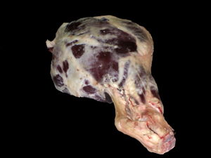 Pictured is a beef Round or hind leg off the hind quarter. This is usually split into a top-round, bottom round and sirloin tip or knuckle.